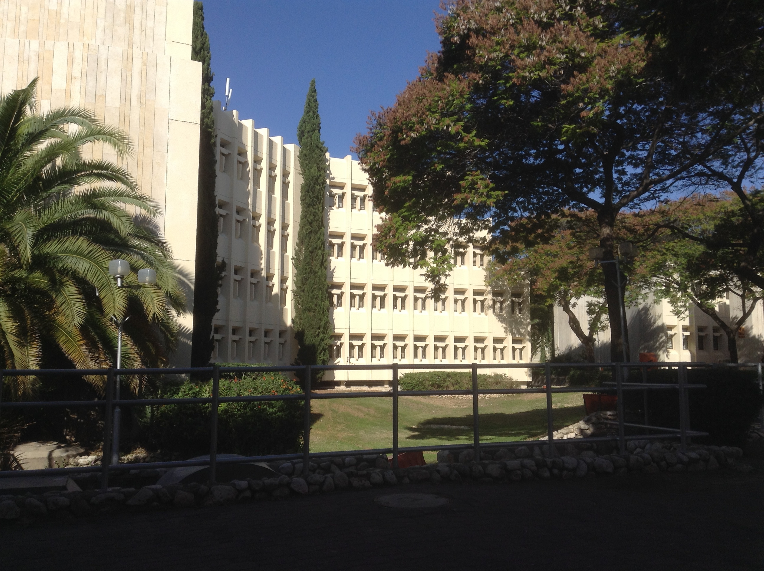 Bar-Ilan University